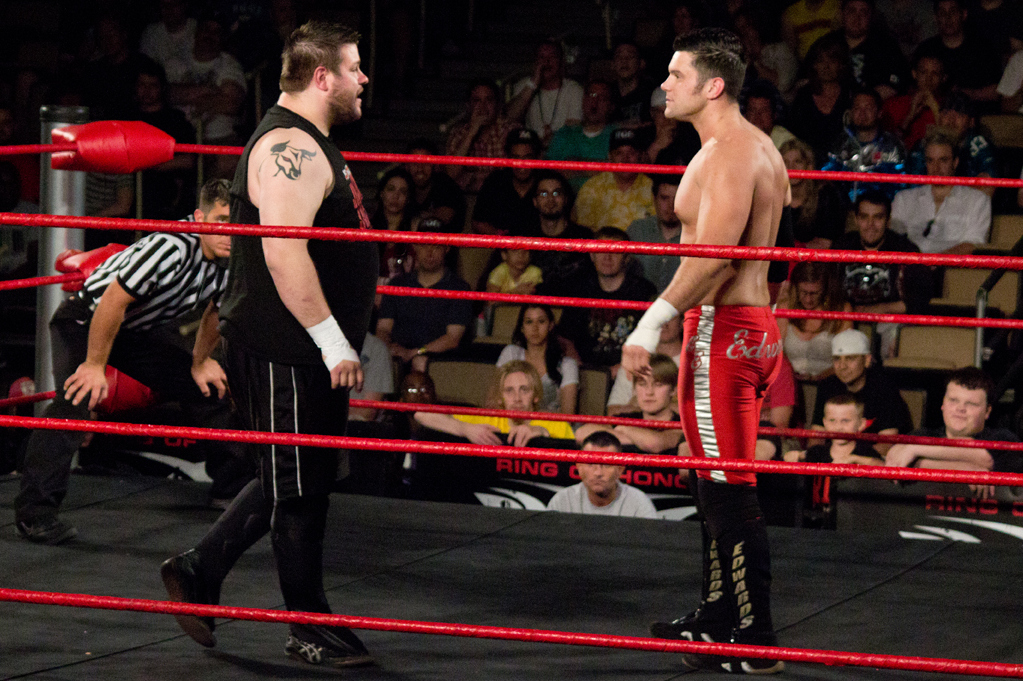 Kevin Steen and Eddie Edwards face off in the ring prior to their match at Showdown in the Sun Night 2 on March 31, 2012.